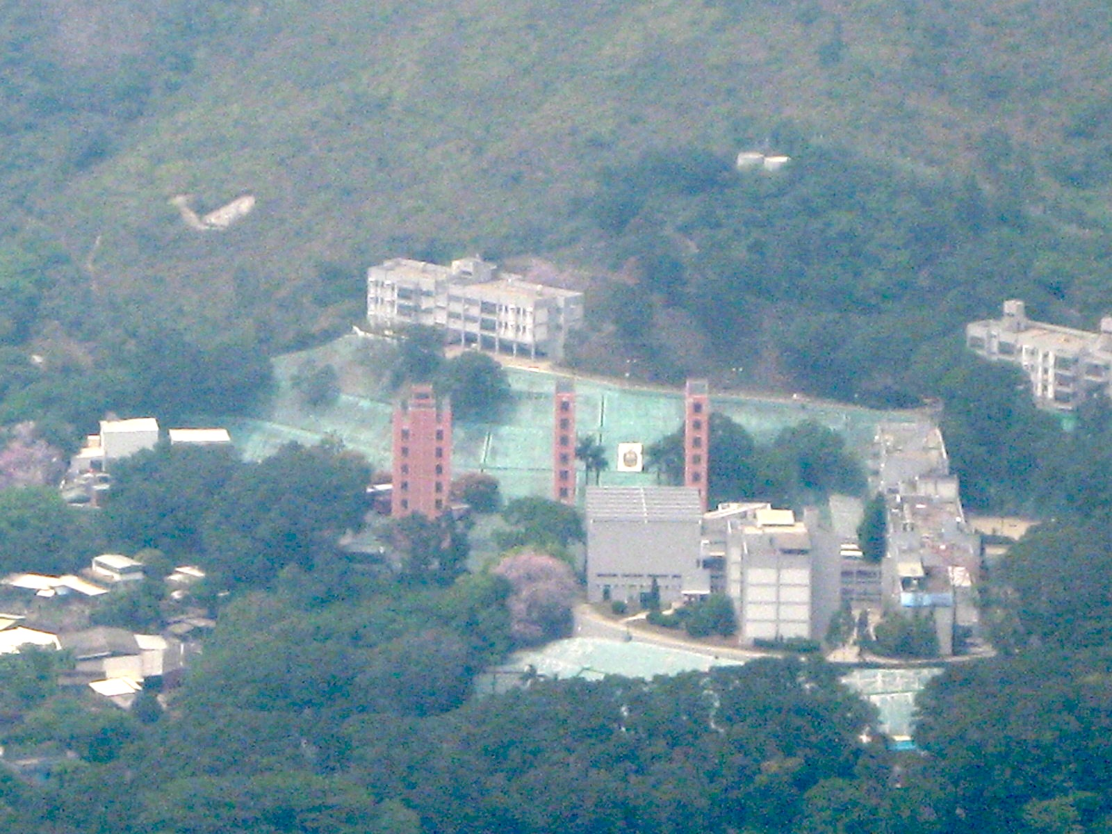 Fire Services Training School overview